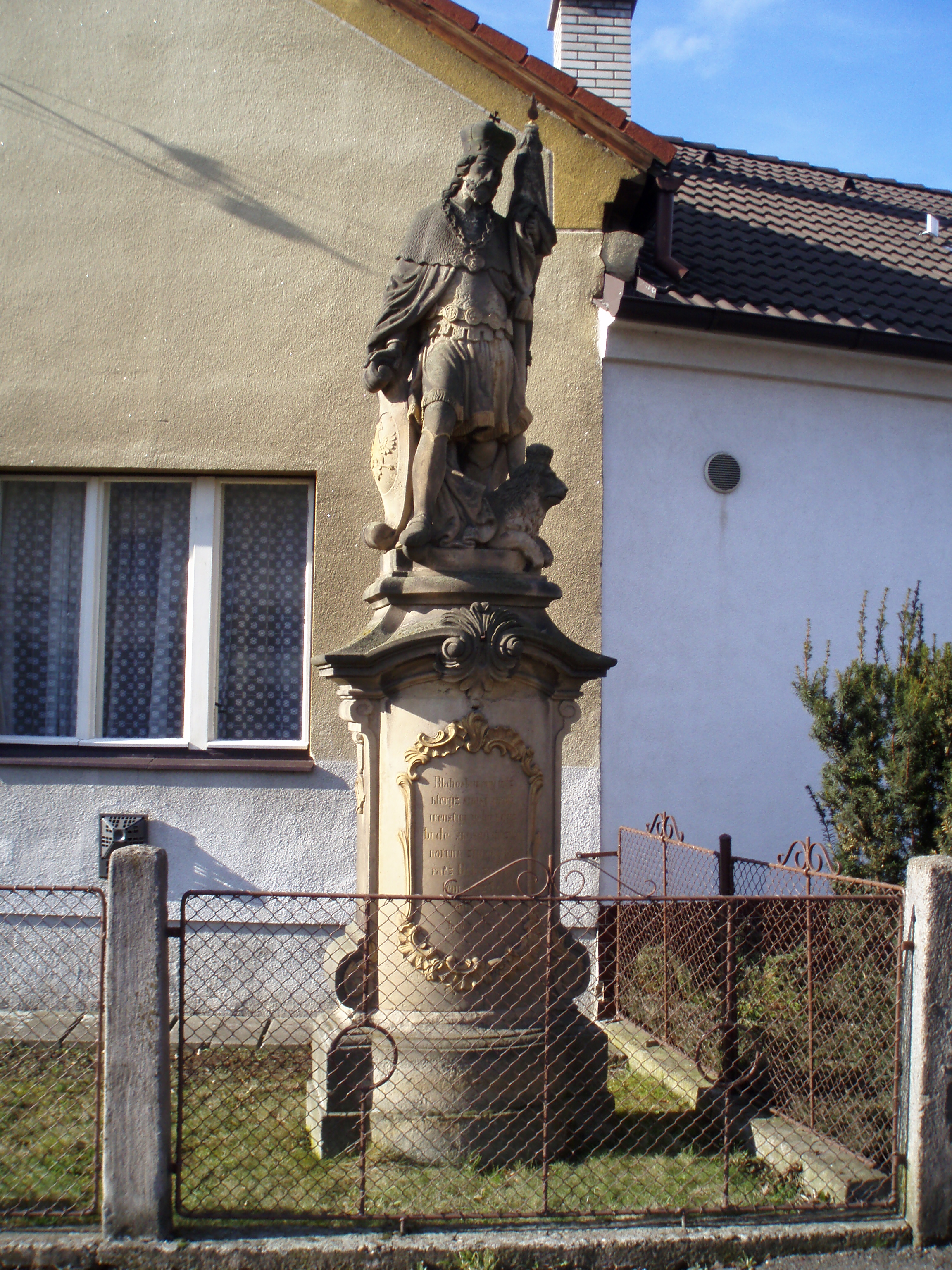 Statue of St. Wenceslas (Plotiště nad Labem, Hradec Králové)